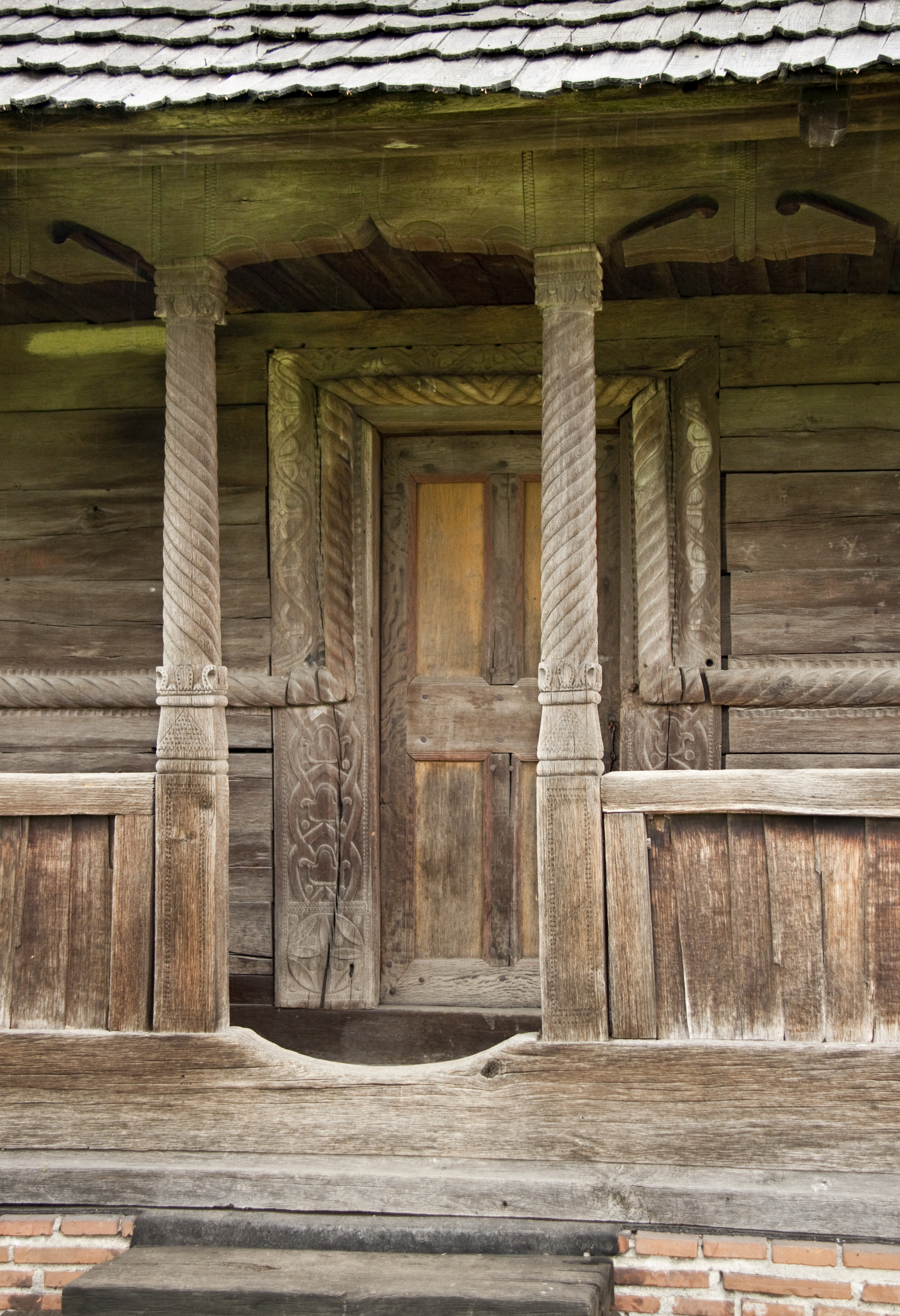 Drăguţeşti in Cotmeana, Argeş county, Romania: the wooden church, at present in the Goleşti Viticulture and Tree Growing Museum.